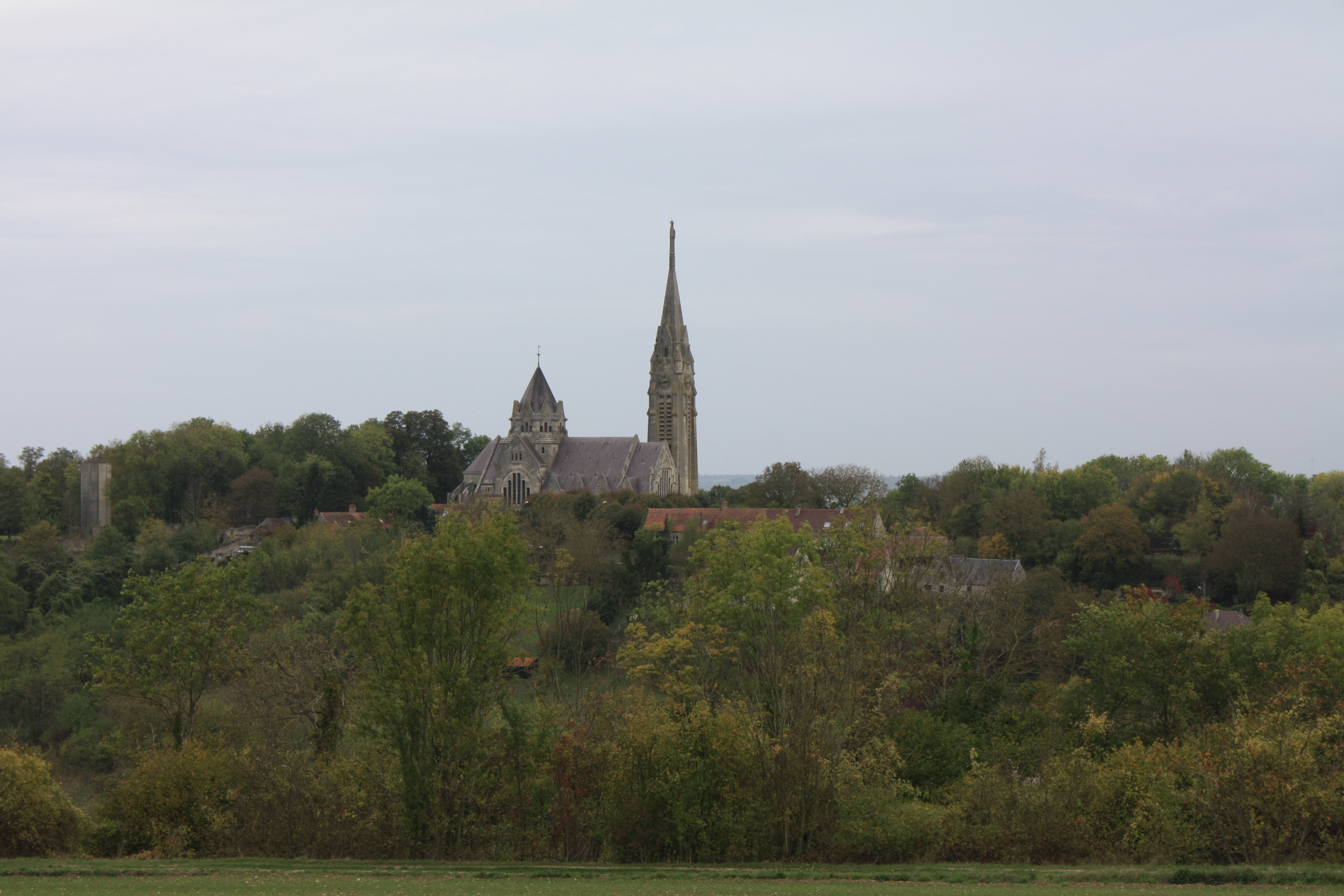 Village de Mont Notre-Dame